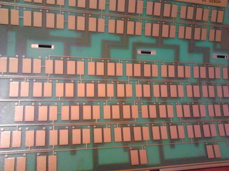 A Model F 122 terminaly keyboard board assembly opened showing the capacitive pads.